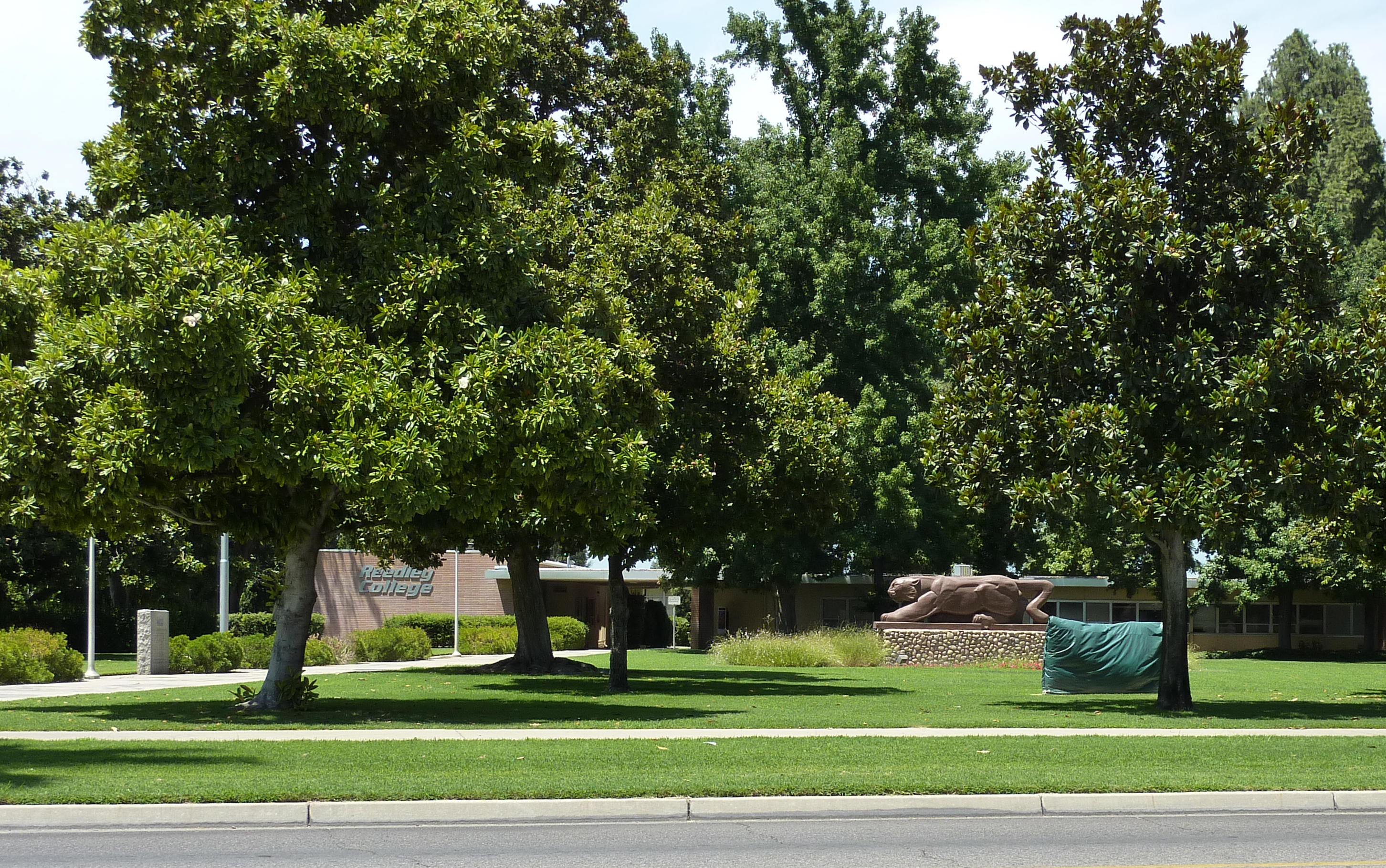 Reedley College, Reedley, Fresno County, California, USA.